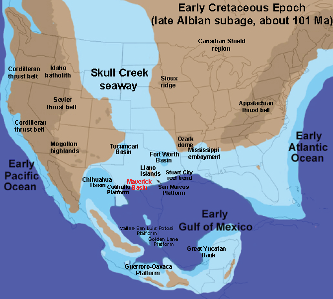 Skull Creek Seaway